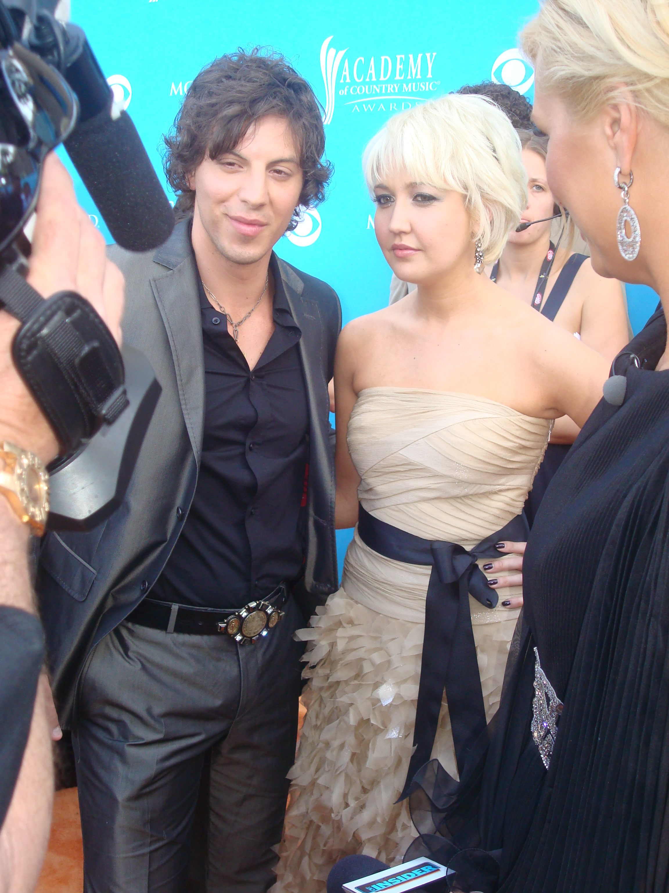 Country music duo Steel Magnolia: Joshua Scott Jones (left) and Meghan Linsey.